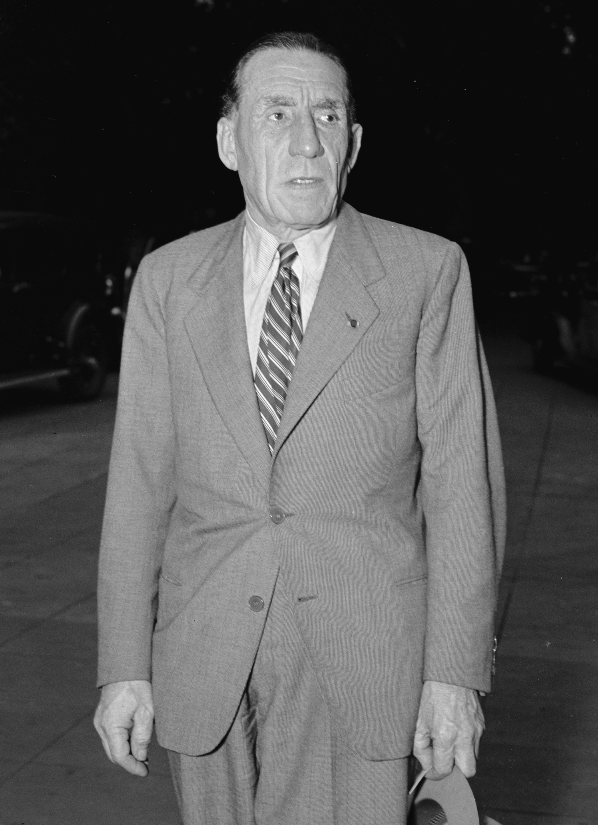 French industrialist Louis Renault (1877-1944) in Washington on 11 June 1940. Press title: "French manufacturer talks tanks with President Roosevelt. Washington, D.C., June 11. Louis Renault, prominent French auto manufacturer, leaving the White House today after a conference with President Roosevelt on war material production. Renault said he was interested chiefly in mass production of tanks, and his discussion with Mr. Roosevelt was a prelude to conferences during the next few days with leading American industrialists. His interpreter said he would probably see William S. Knudsen and Henry Ford."